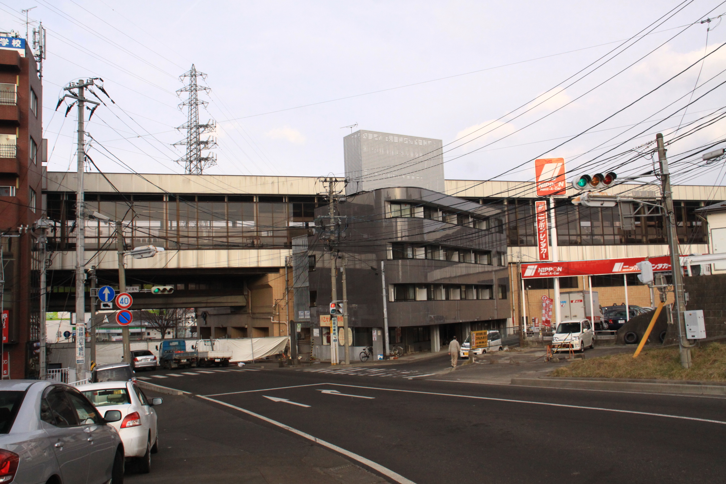 Yaotome Station received the severe damage due to the earthquake in Izumi-ku, Sendai, Miyagi. The road under the station became a suspension of traffic because of dangerous prevention.